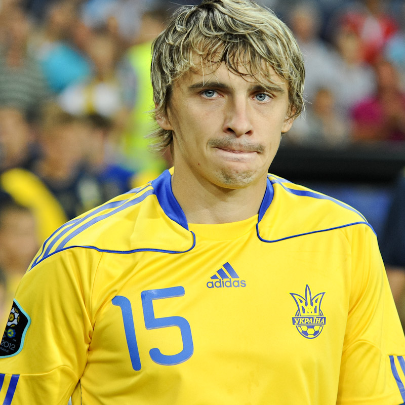 Maksym Kalynychenko